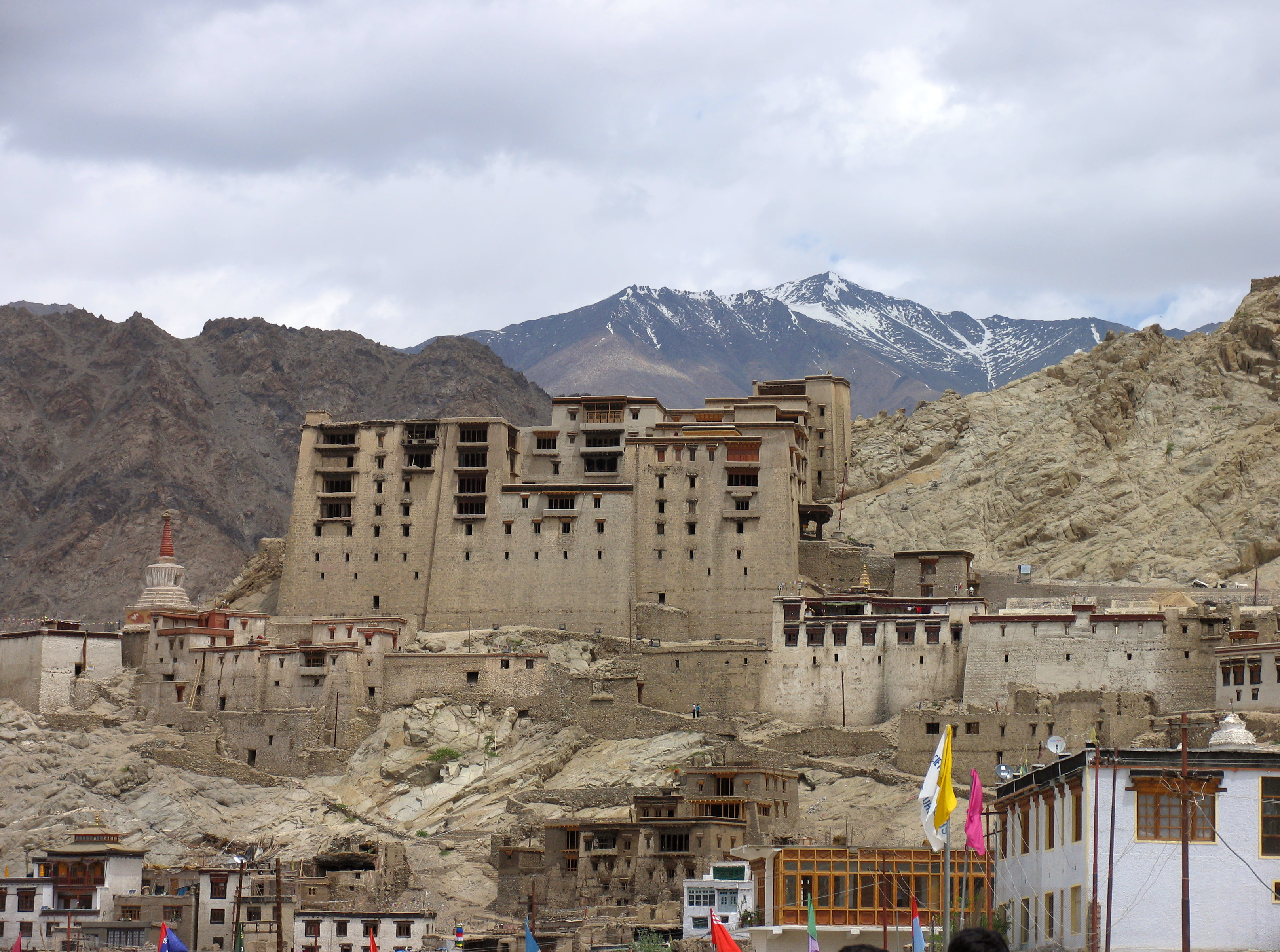 Ancient Royal Palace of Leh